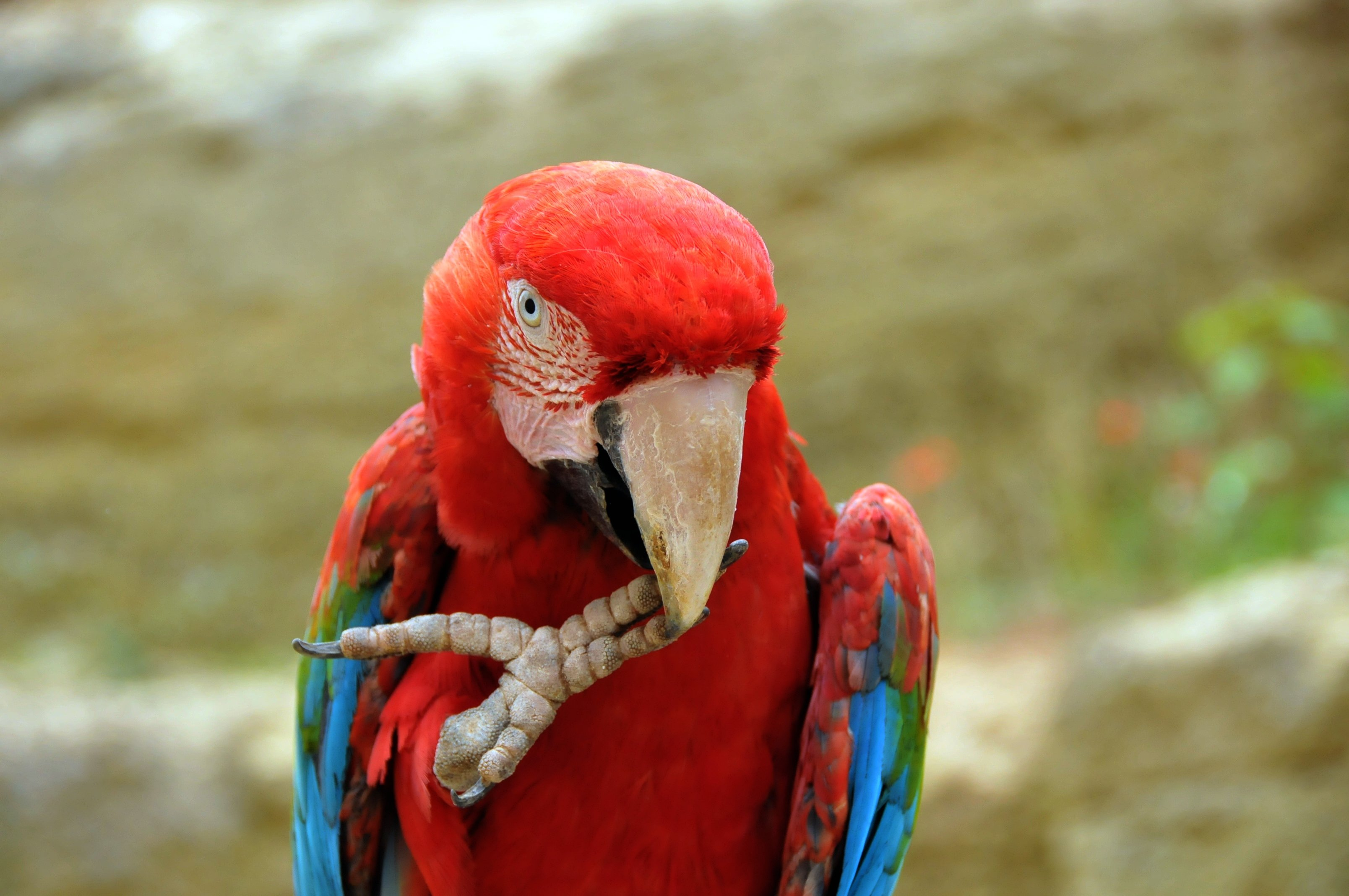 Green-winged Macaw (also known as Red-and-green Macaw) at Bioparc Zoo de Doué la Fontaine, France. It has brought raised its right foot which shows two toes forward and two toes backward, which is a characteristic of parrots.